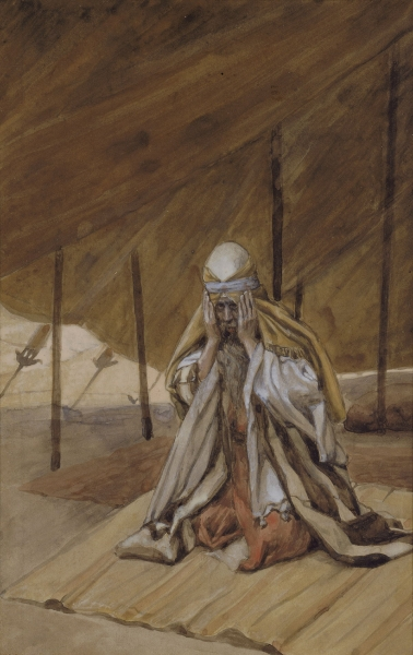 God Renews His Promises to Abraham, c. 1896-1902, by James Jacques Joseph Tissot (French, 1836-1902), gouache on board, 8 3/8 x 5 5/16 in. (21.4 x 13.5 cm), at the Jewish Museum, New York